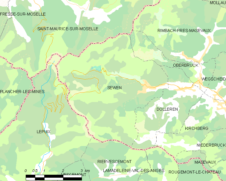 Map of French municipality